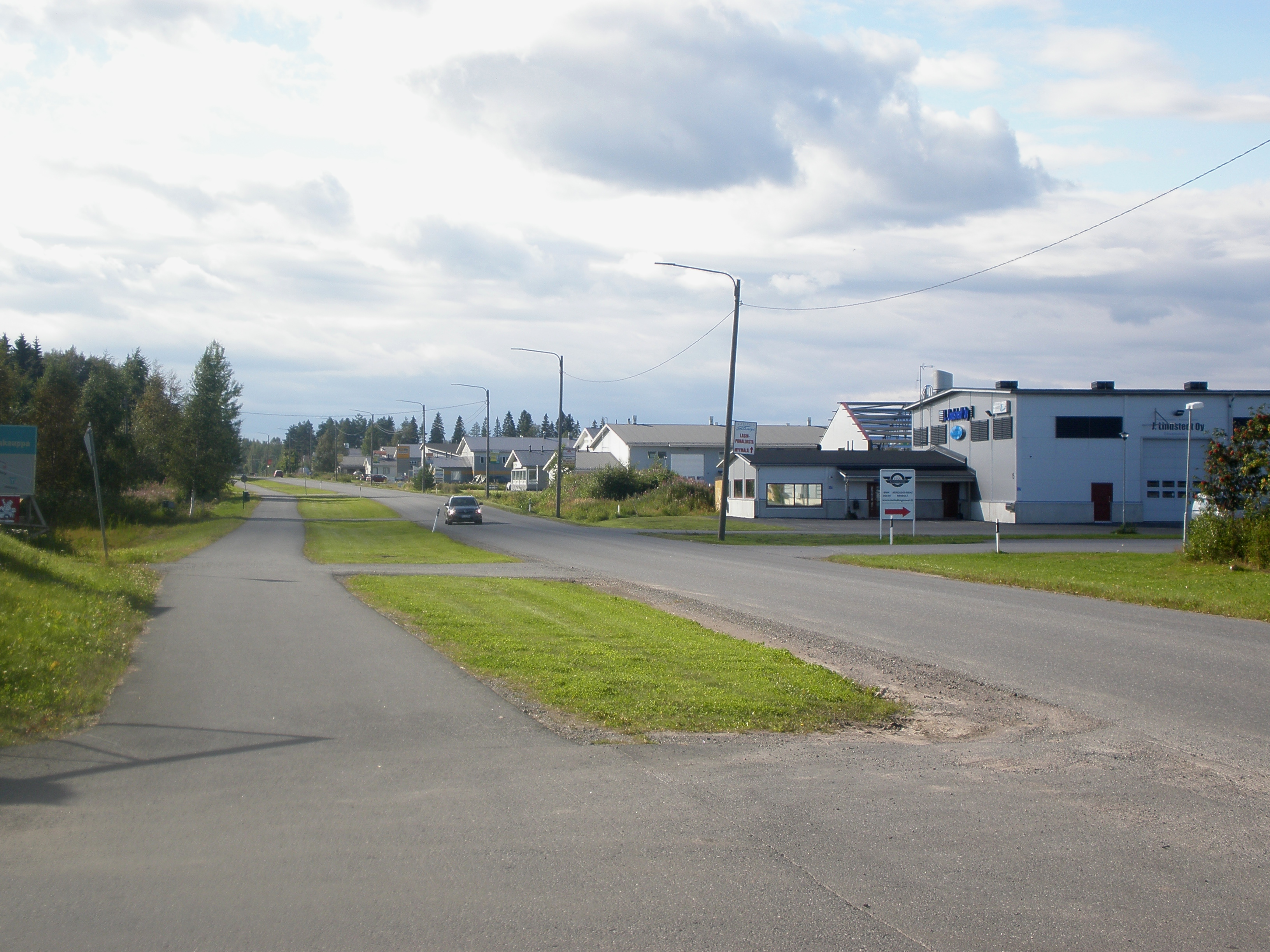 Elovainio district at Ylöjärvi